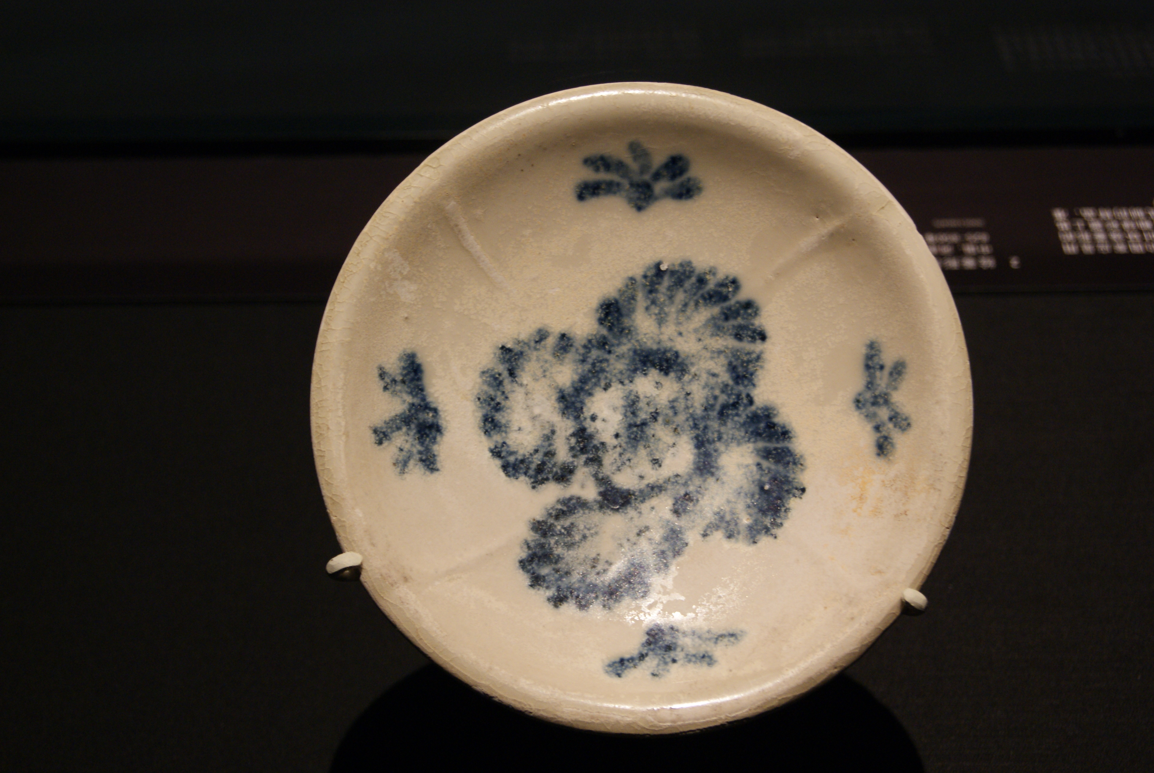 Part of the collection of artifacts from the Belitung shipwreck owned by the Sentosa Leisure Group and the Government of Singapore, photographed while displayed at an exhibition called Shipwrecked: Tang Treasures and Monsoon Winds at the ArtScience Museum, Marina Bay Sands, Singapore, from 19 February 2011 to 31 July 2011.